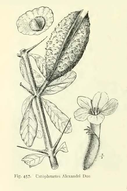 Catophractes alexandri D.Don from "Die Pflanzenwelt Afrikas" (1910)